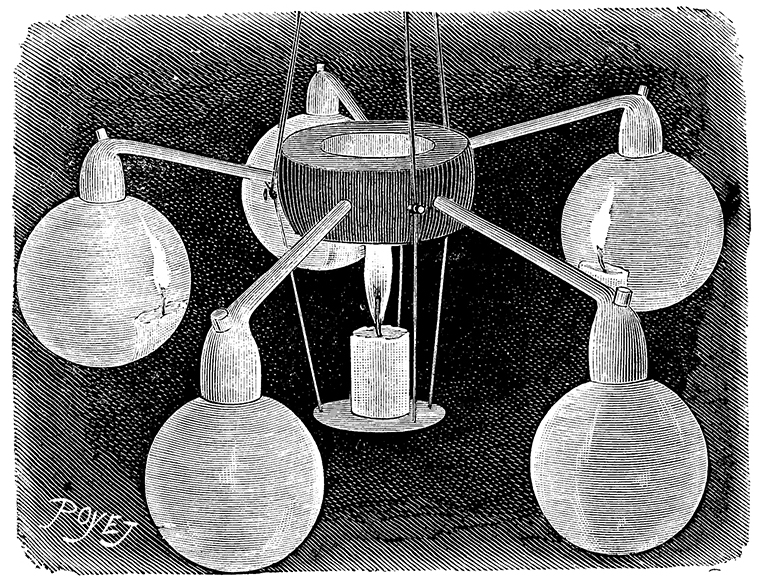 Lustre en bulles de savon (Soap-bubble Chandelier). Engraving by Louis Poyet and associates, from La Science Amusante (Amusing Science), by Arthur Good. Late 19th-early 20th centuries.